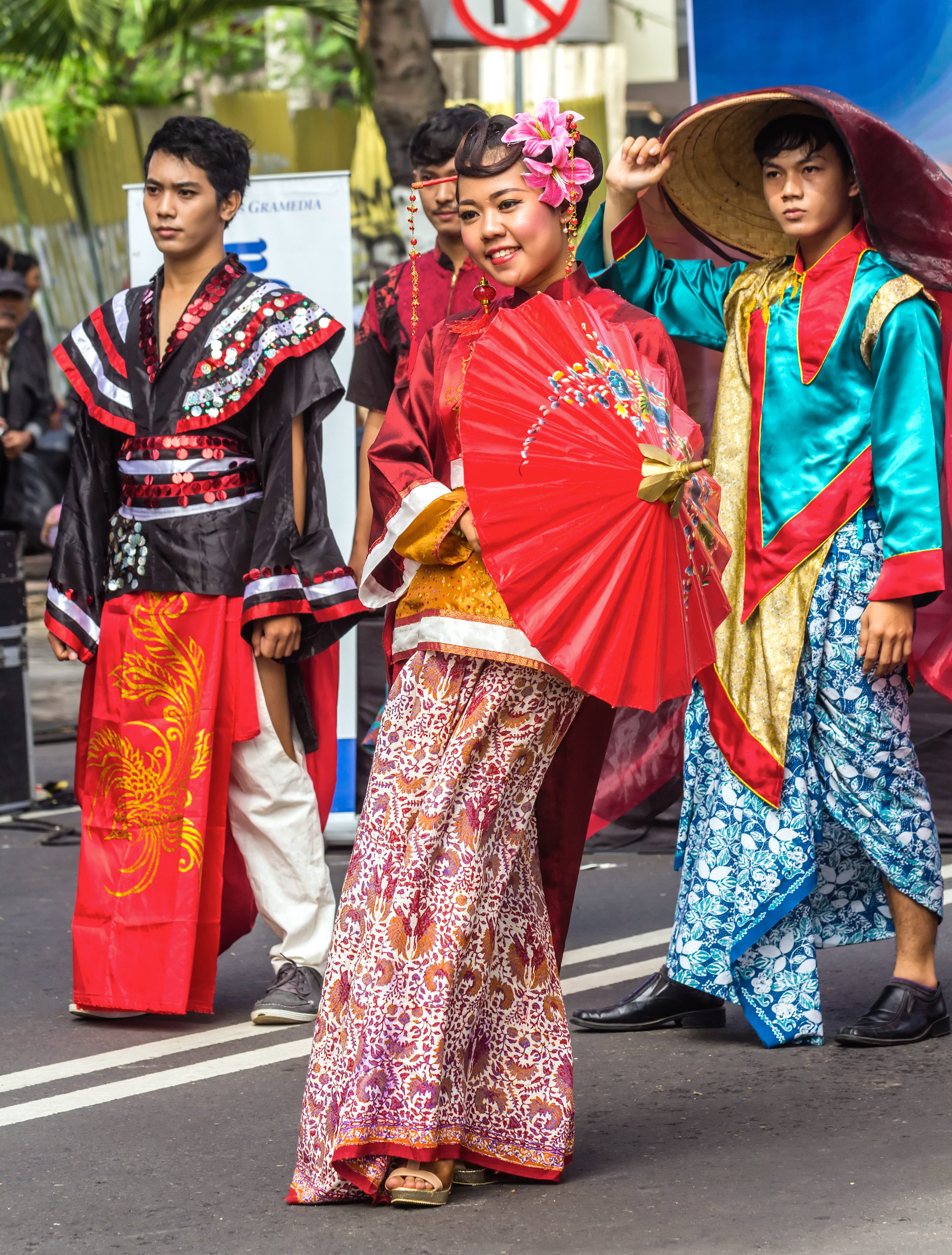 Students from Yogyakarta State University put on a fashion show on Sudirman Street, Yogyakarta, to celebrate Chinese New Year. They are taking advantage of the car-free day policies.